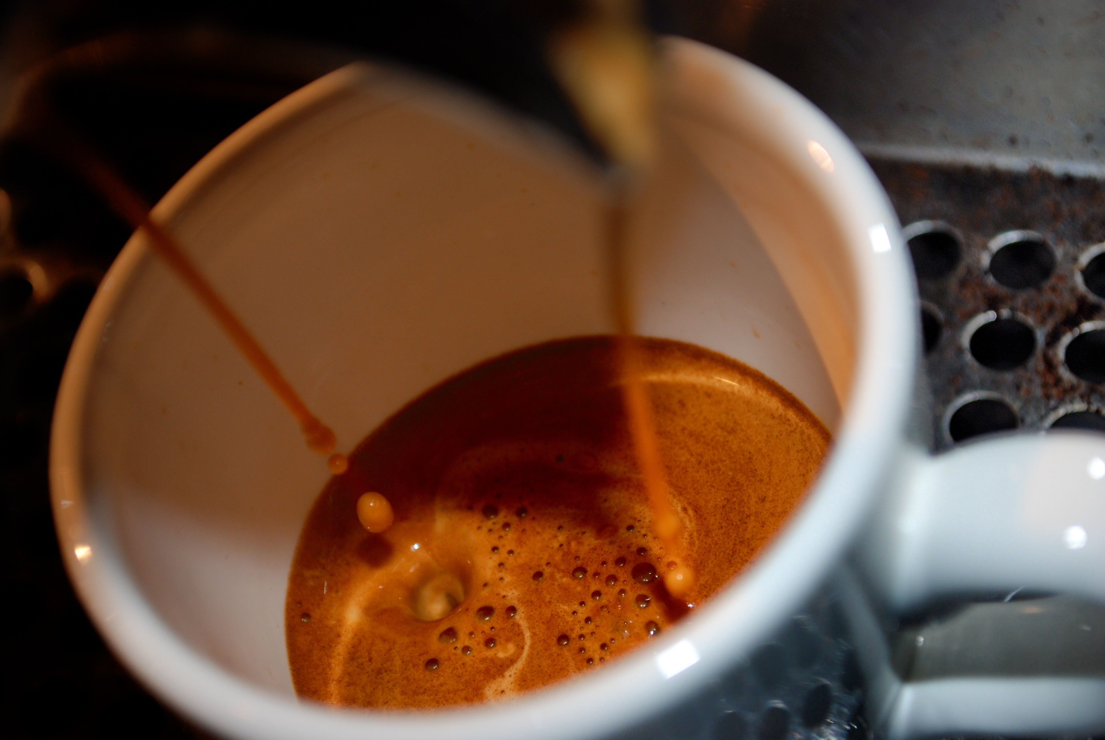 Doppio, in espresso, is a double shot, extracted using a double filter basket in the portafilter. This results in a 60ml drink, double the amount of a single shot espresso. More commonly called a standard double, it is a standard in judging the espresso quality in barista competitions. Doppio is Italian for "double".